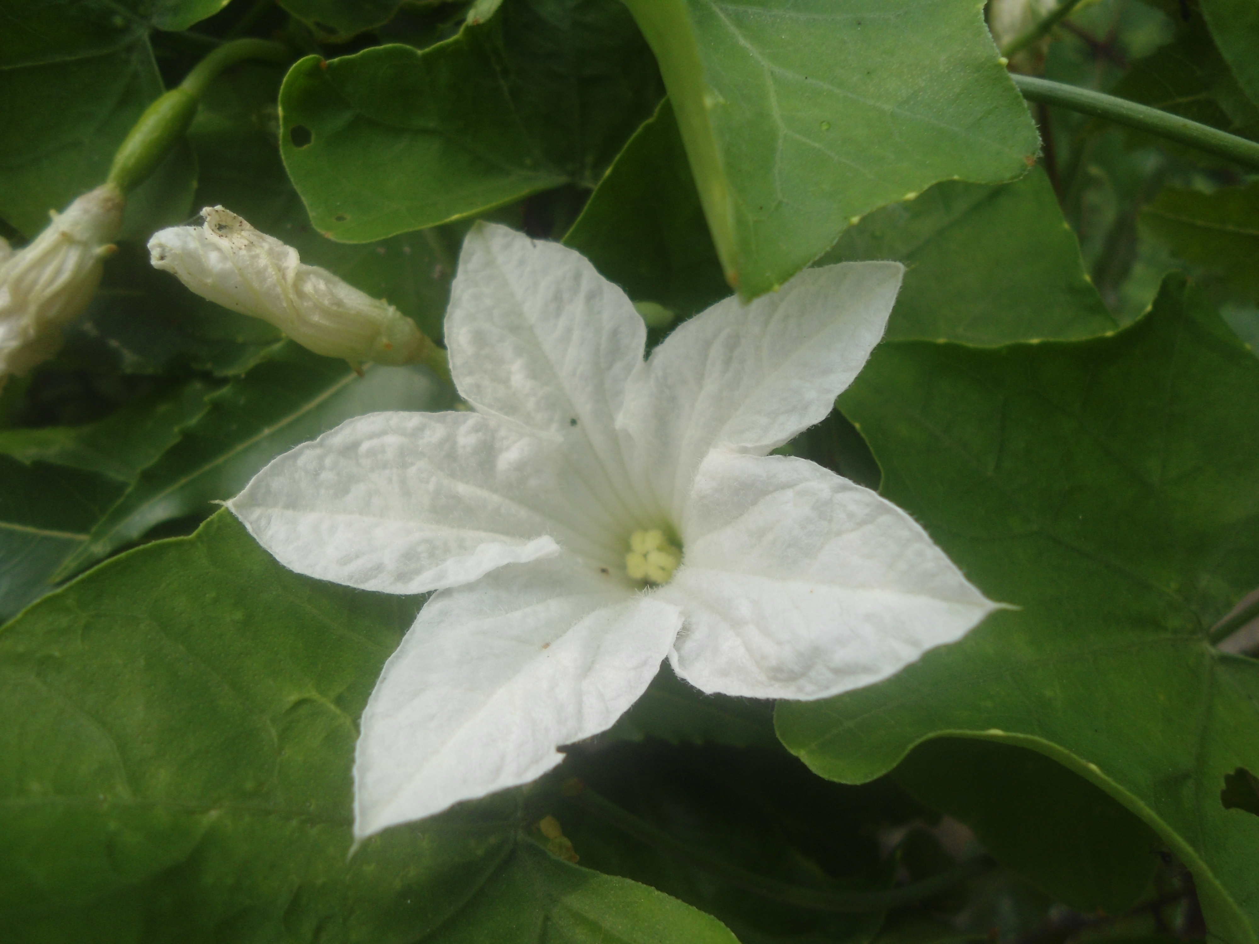 (Coccinia grandis) flower at Madhurawada, Visakhapatnam